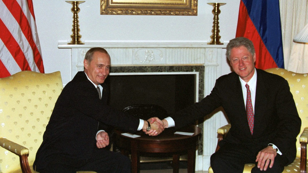 NEW YORK. President Vladimir Putin and US President Bill Clinton.